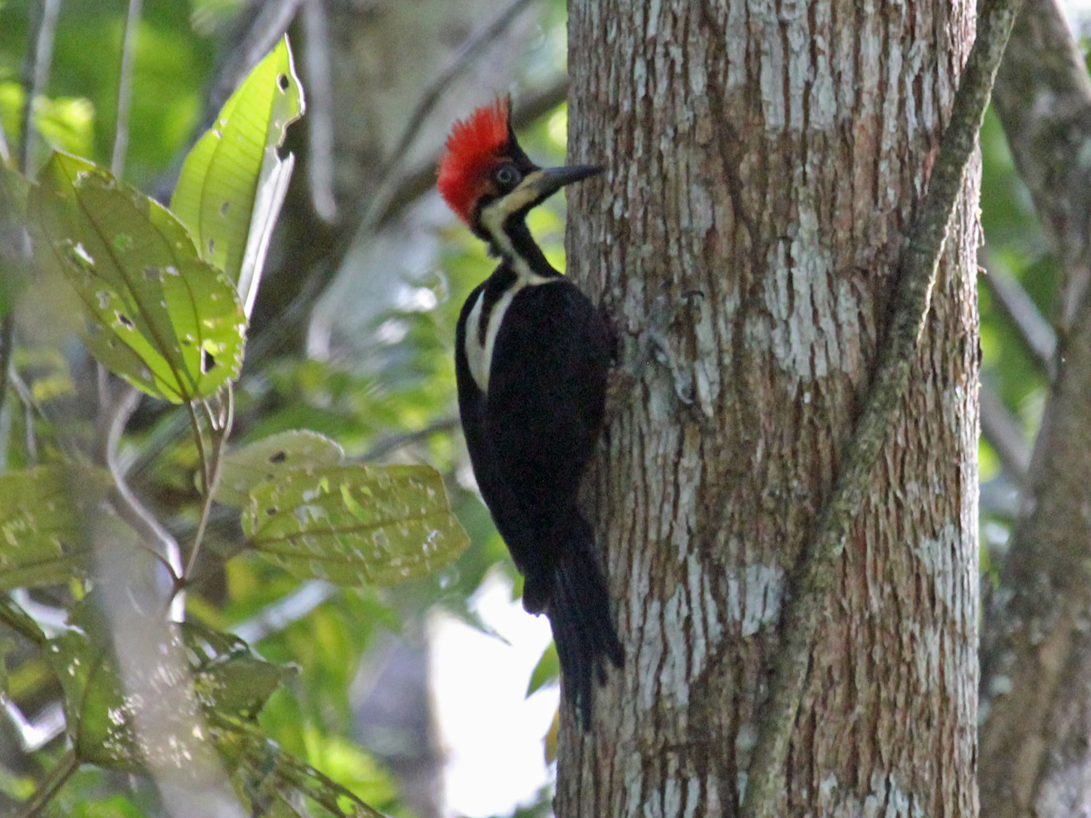 Female Crimson-crested Woodpecker (Campephilus melanoleucos) - Soberania National Park, Panama